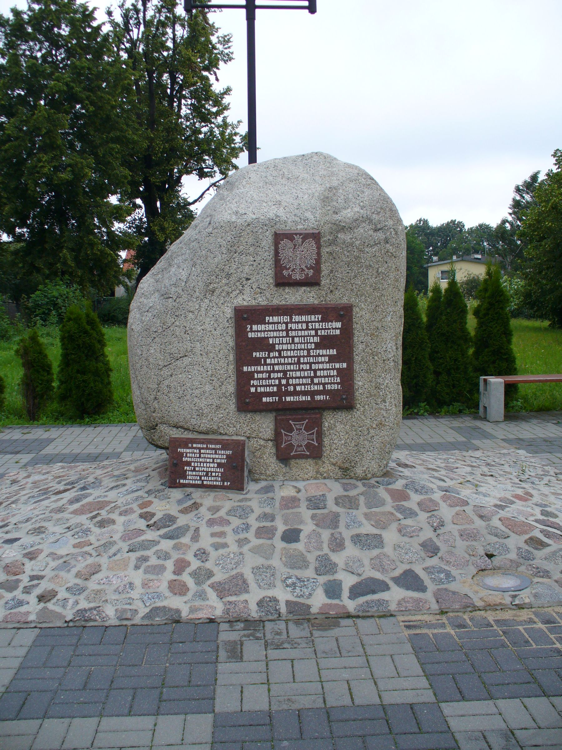 Poland, Mosty